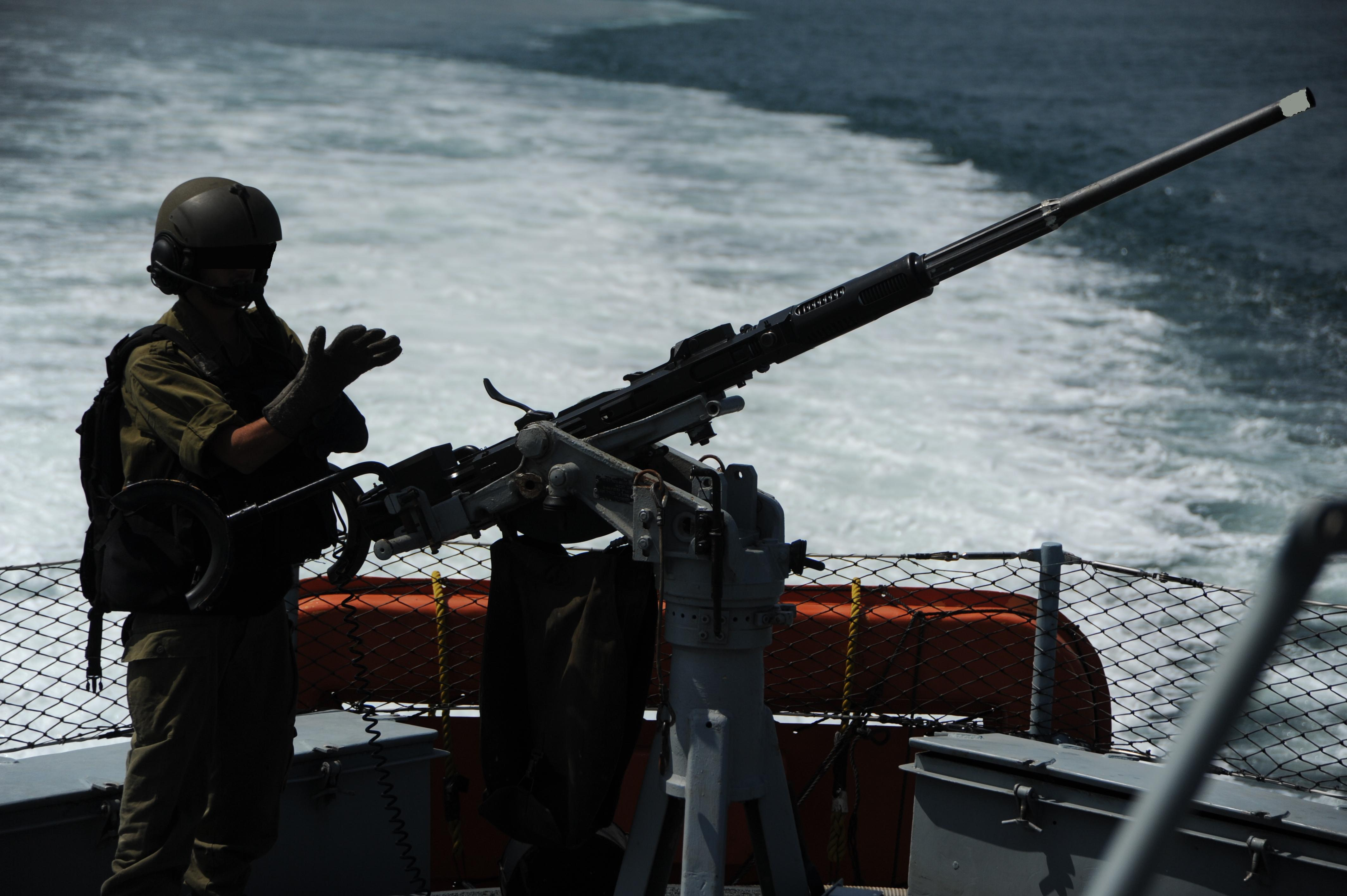 Israeli Navy soldier